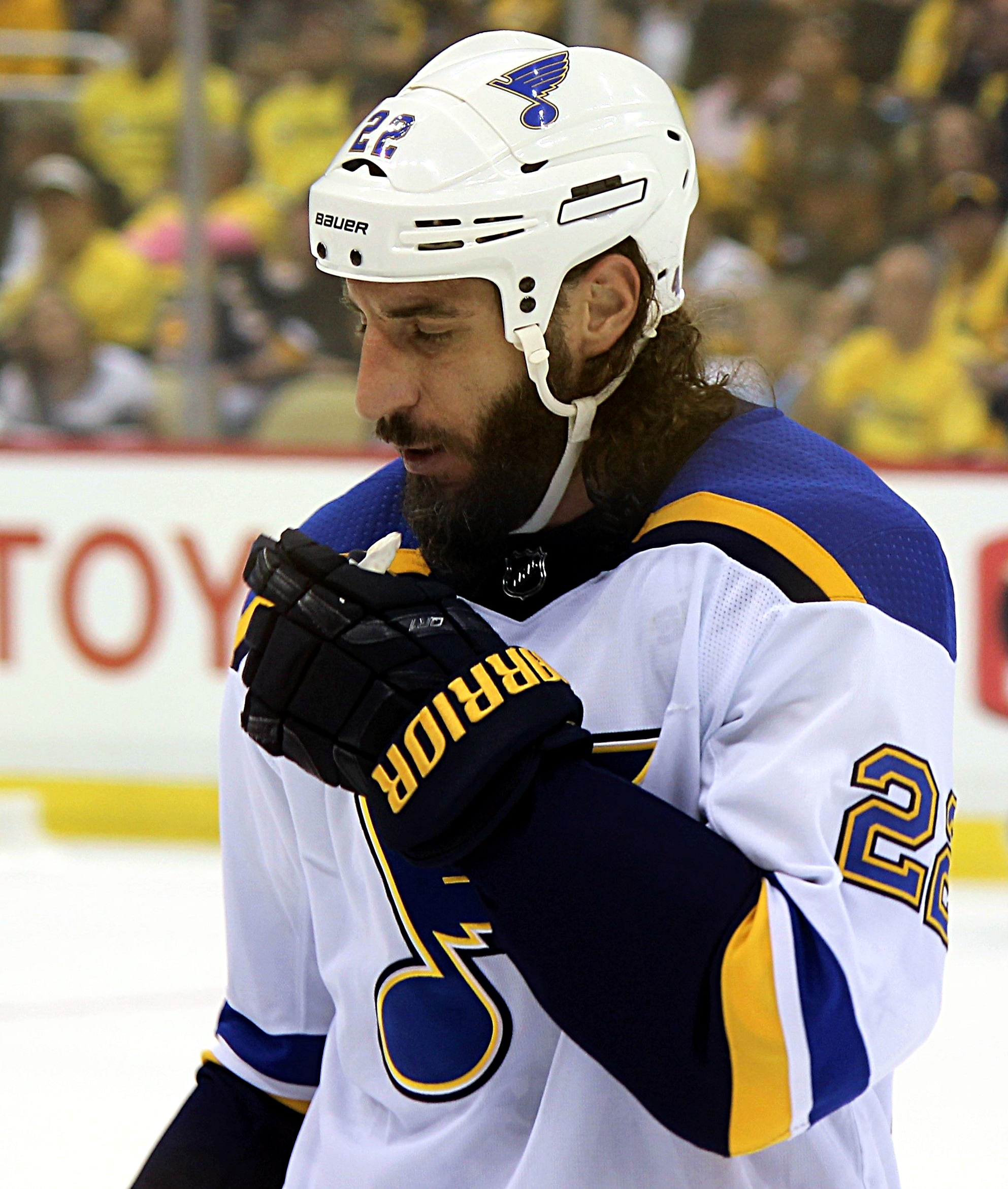 St. Louis Blues forward Chris Thorburn during a game against the Pittsburgh Penguins, October 4, 2017, at PPG Paints Arena in Pittsburgh, PA.